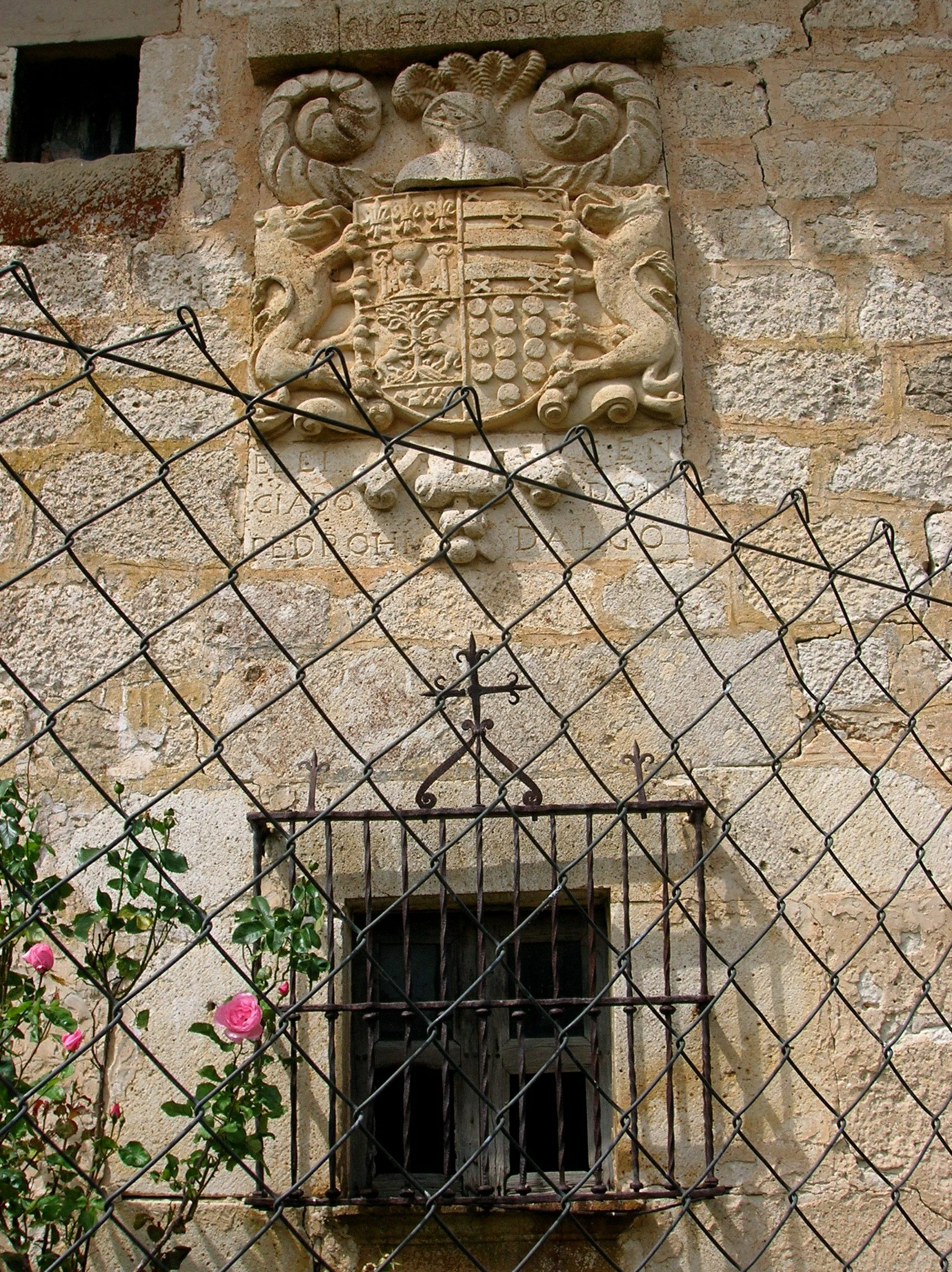 Casa blasonada en Prádanos del Tozo, provincia de Burgos, España